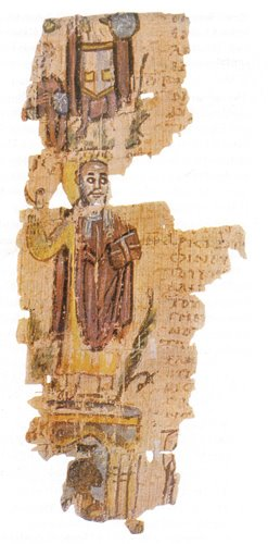 Goleniscev Papyrus, Pope Theophilus standing on the Serapeion